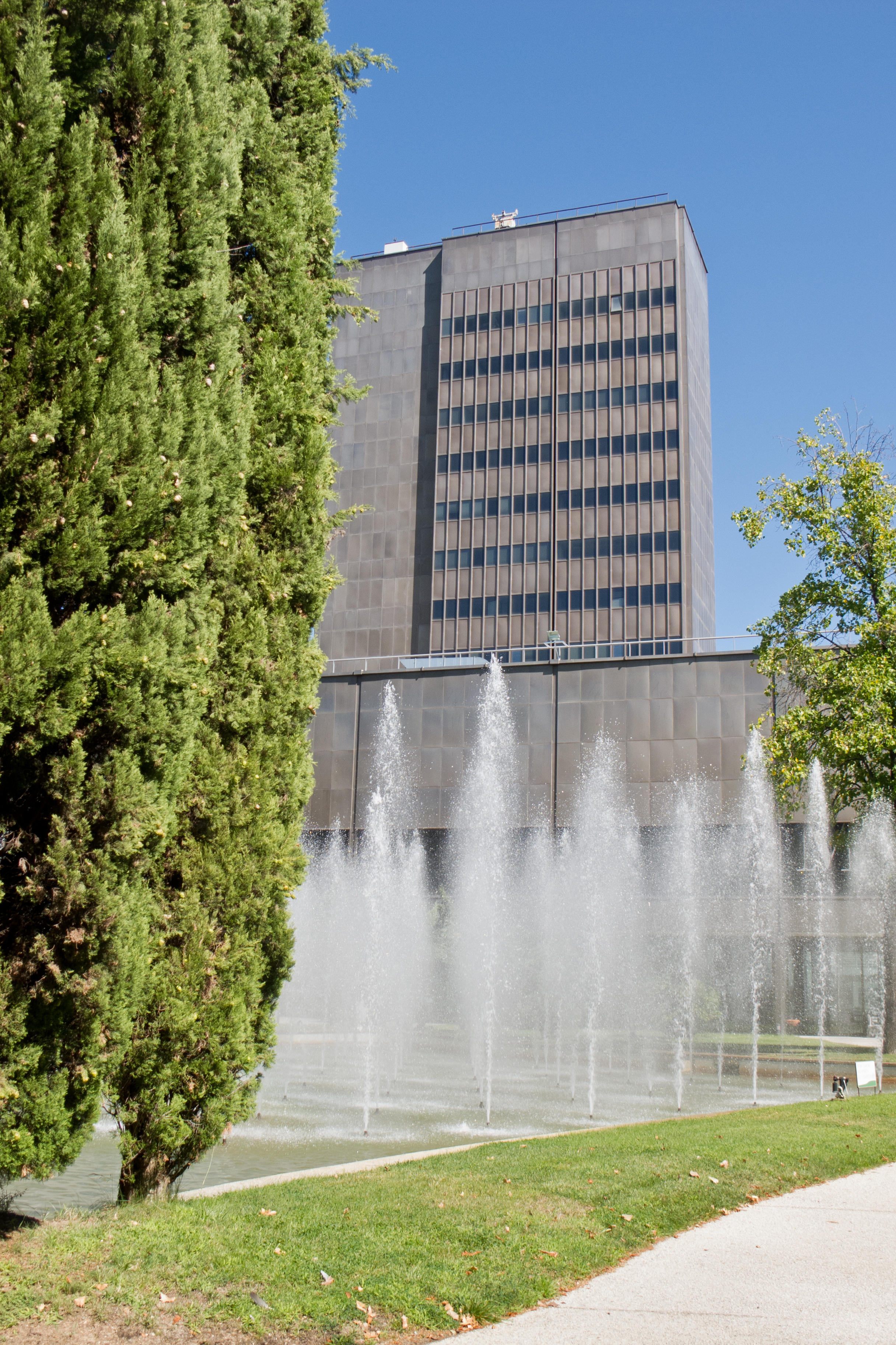 Museum of Clothing and part of the National Anthropological Museum, Madrid, Spain.